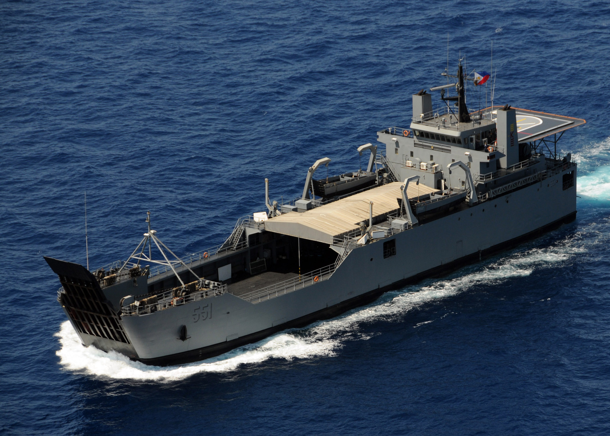 SOUTH CHINA SEA (March 14, 2010) - Republic of the Philippines Navy ship BRP Dagupan City (LC 551), under the command of Capt. Loumer P Bernabe PN(GSC), steams in formation for a photography exercise as a part of exercise Balikatan 2010 (BK 10). Essex, commanded by Capt. Troy Hart, is part of the forward-deployed Essex Amphibious Ready Group and is participating in BK 10, an annual, bilateral exercise designed to improve interoperability between the U.S. and Republic of the Philippines. (U.S. Navy photo by Mass Communication Specialist 2nd Class Mark R. Alvarez/Released)